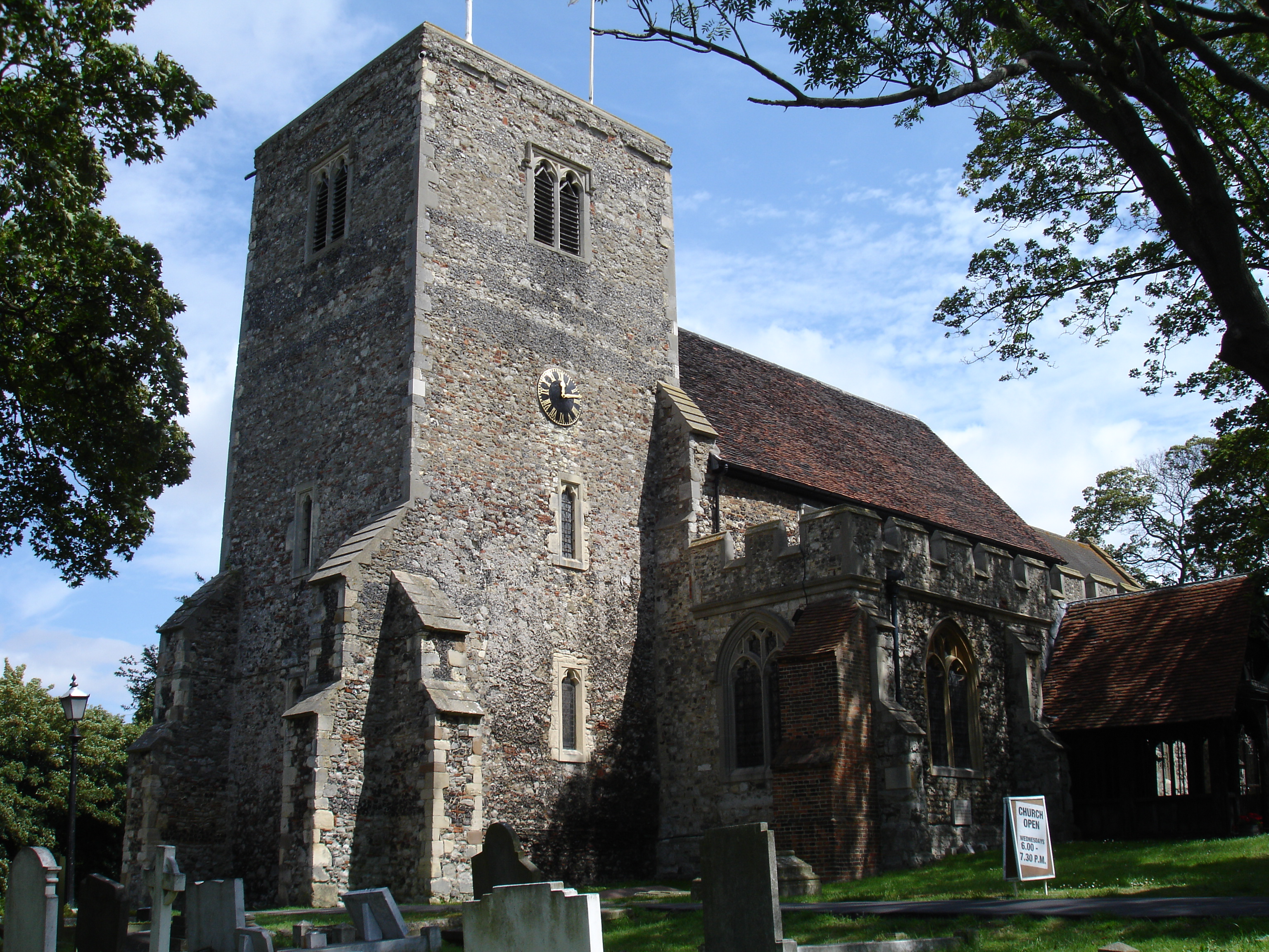 Photograph of St Mary's Church, Benfleet from the south-west